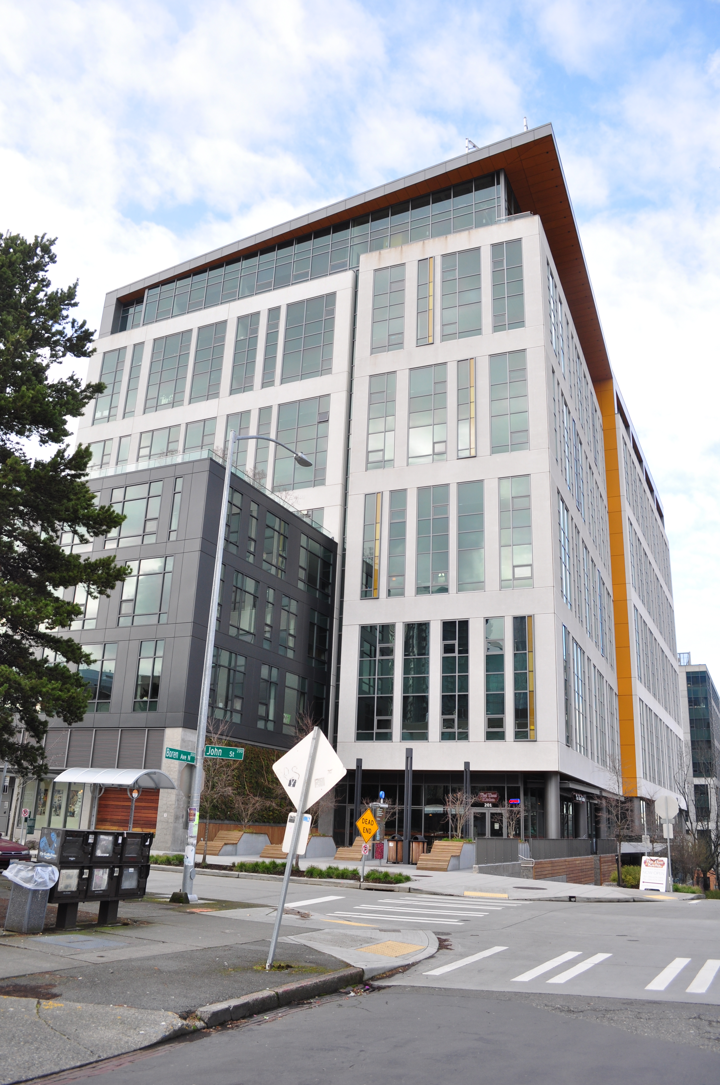 Arizona Building, 207 Boren Ave. N. in the South Lake Union neighborhood of Seattle, Washington, USA.